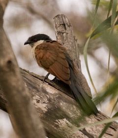 Thomas J. Haslam, On 20 January 2007, I took this photo at Parc Forestier de Hann, Dakar, Senegal for Wikipedia. Licensed under CC-BY 2.5 and GFDL. Published to my Flickr account under the same license.